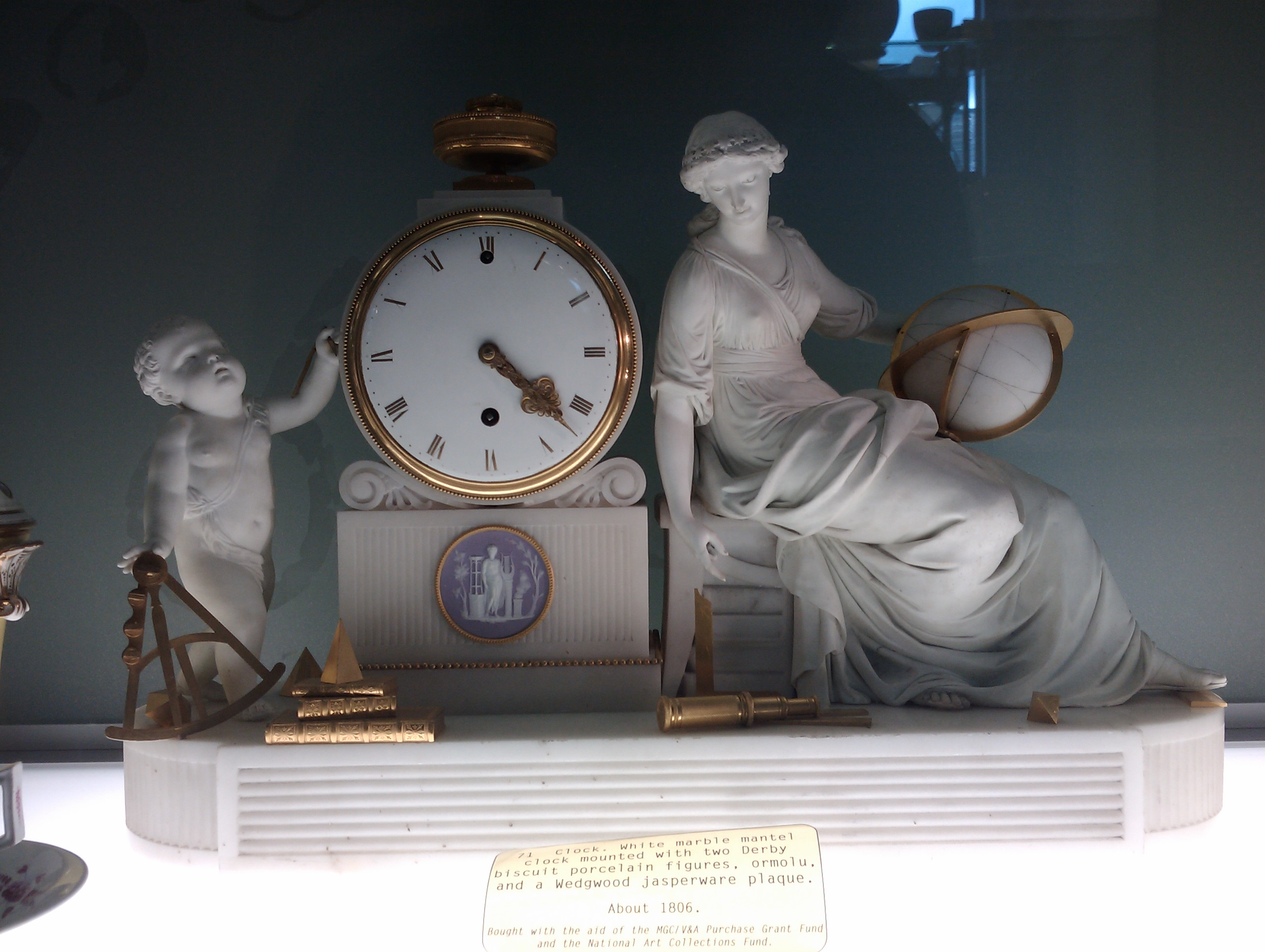 Mantel Clock by Benjamin Vulliamy that is now in Derby Museum